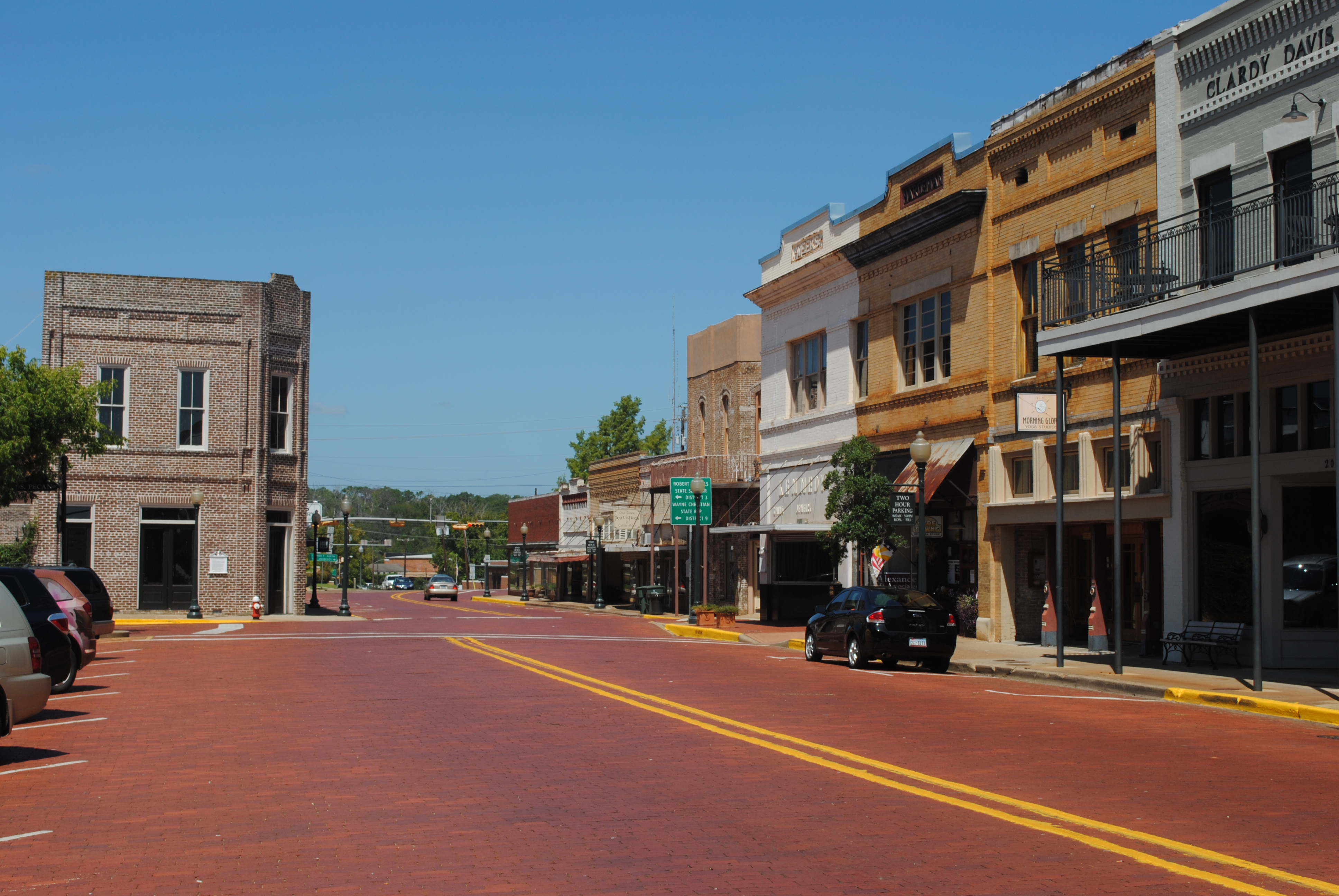 Nacogdoches Downtown Historic District